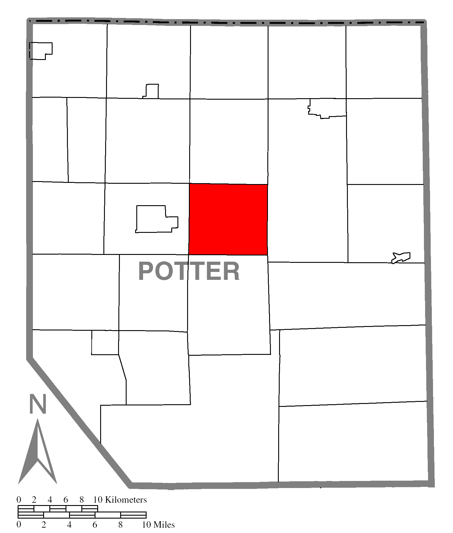 A map of Potter County showing Sweden Township, Pennsylvania (alternate) highlighted on the map.